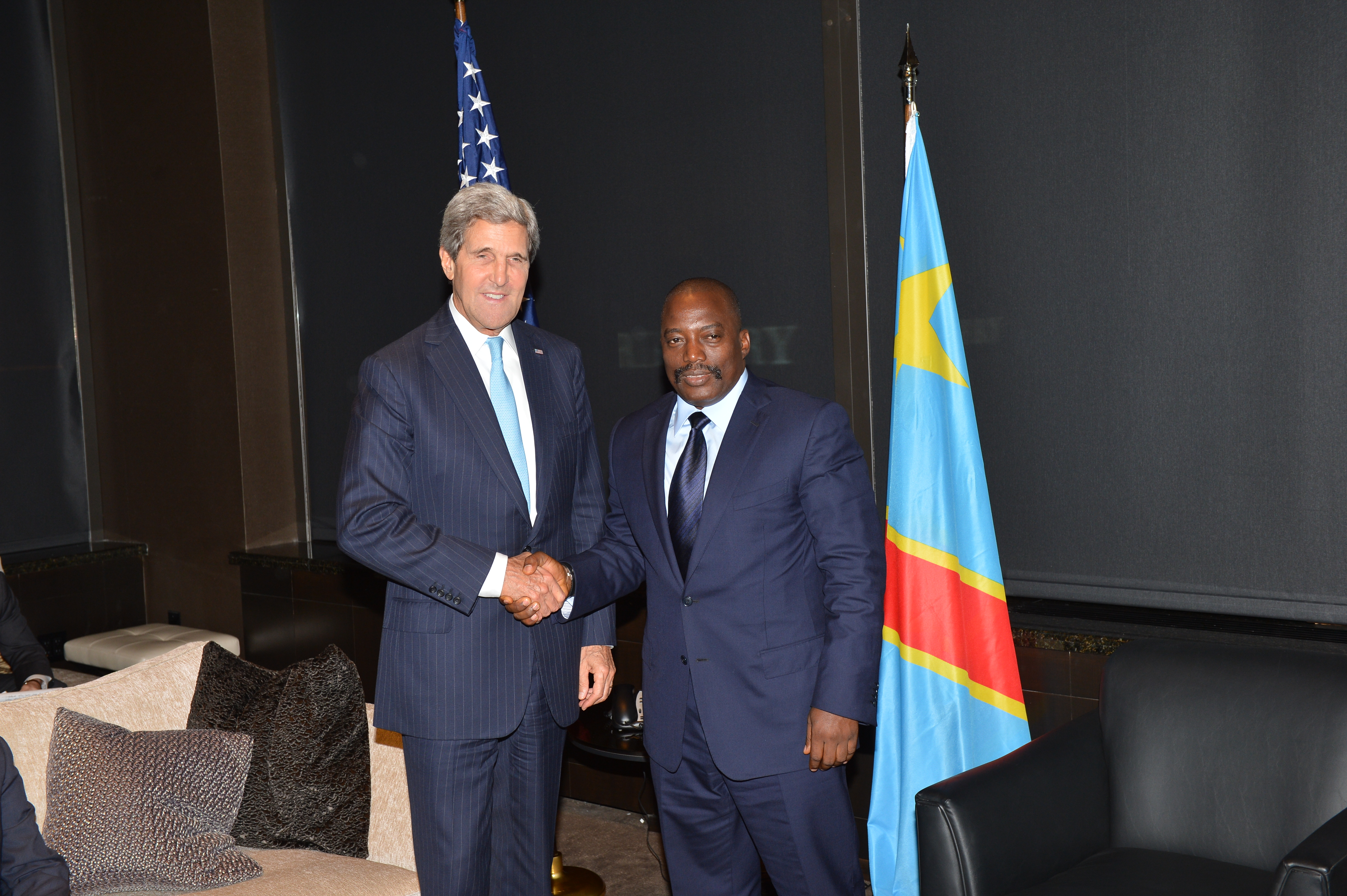 U.S. Secretary of State John Kerry holds a bilateral meeting with the President of the Democratic Republic of Congo Joseph Kabila in New York City on September 24, 2013. [State Department photo/ Public Domain]